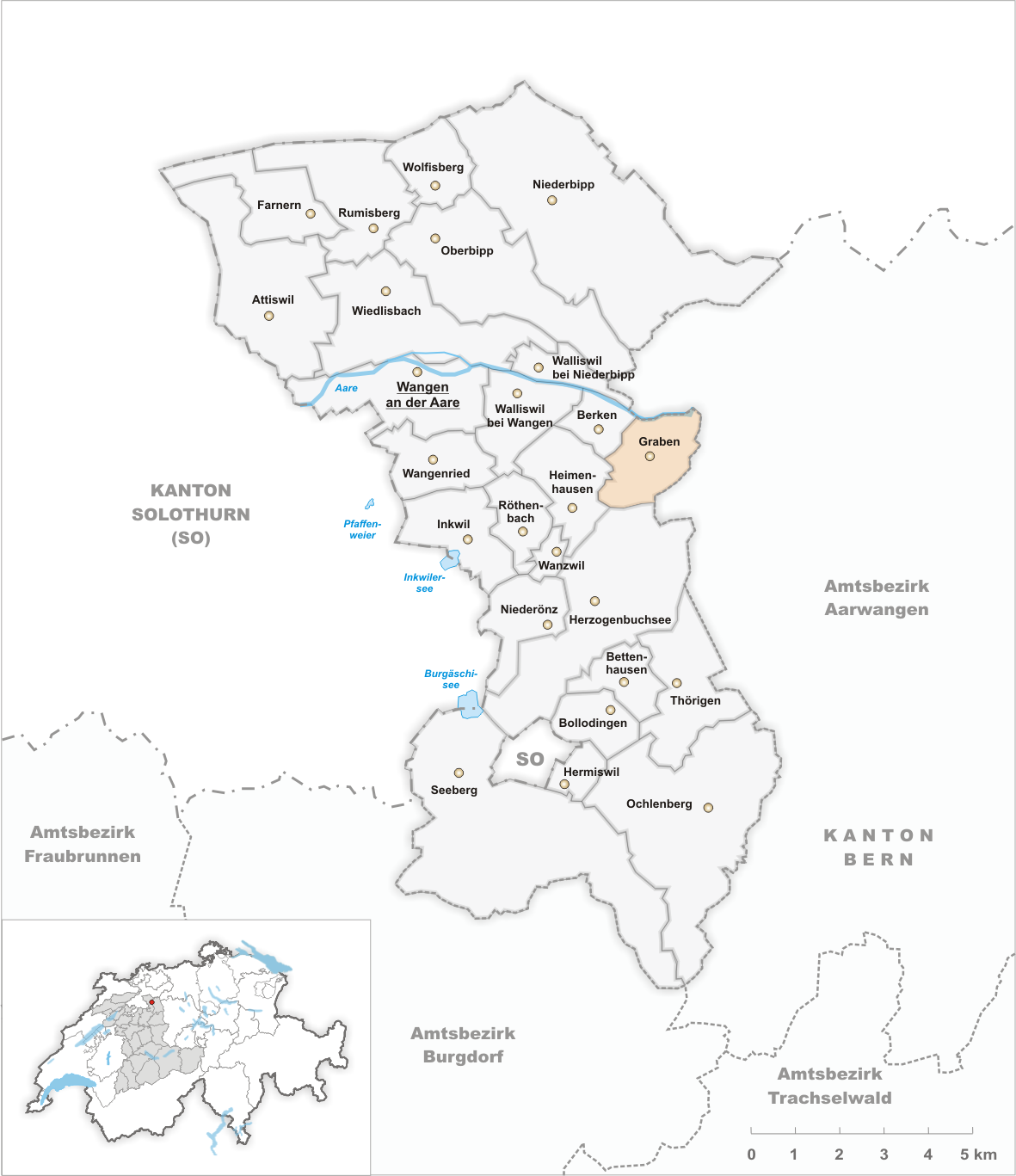 Municipality Graben